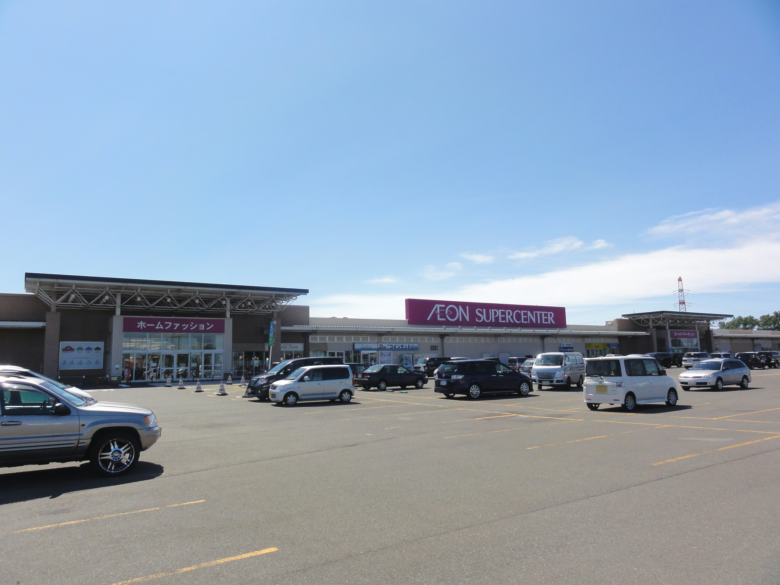 AEON Ishikari Ryokuendai Shopping Center (Ishikari, Hokkaidō)